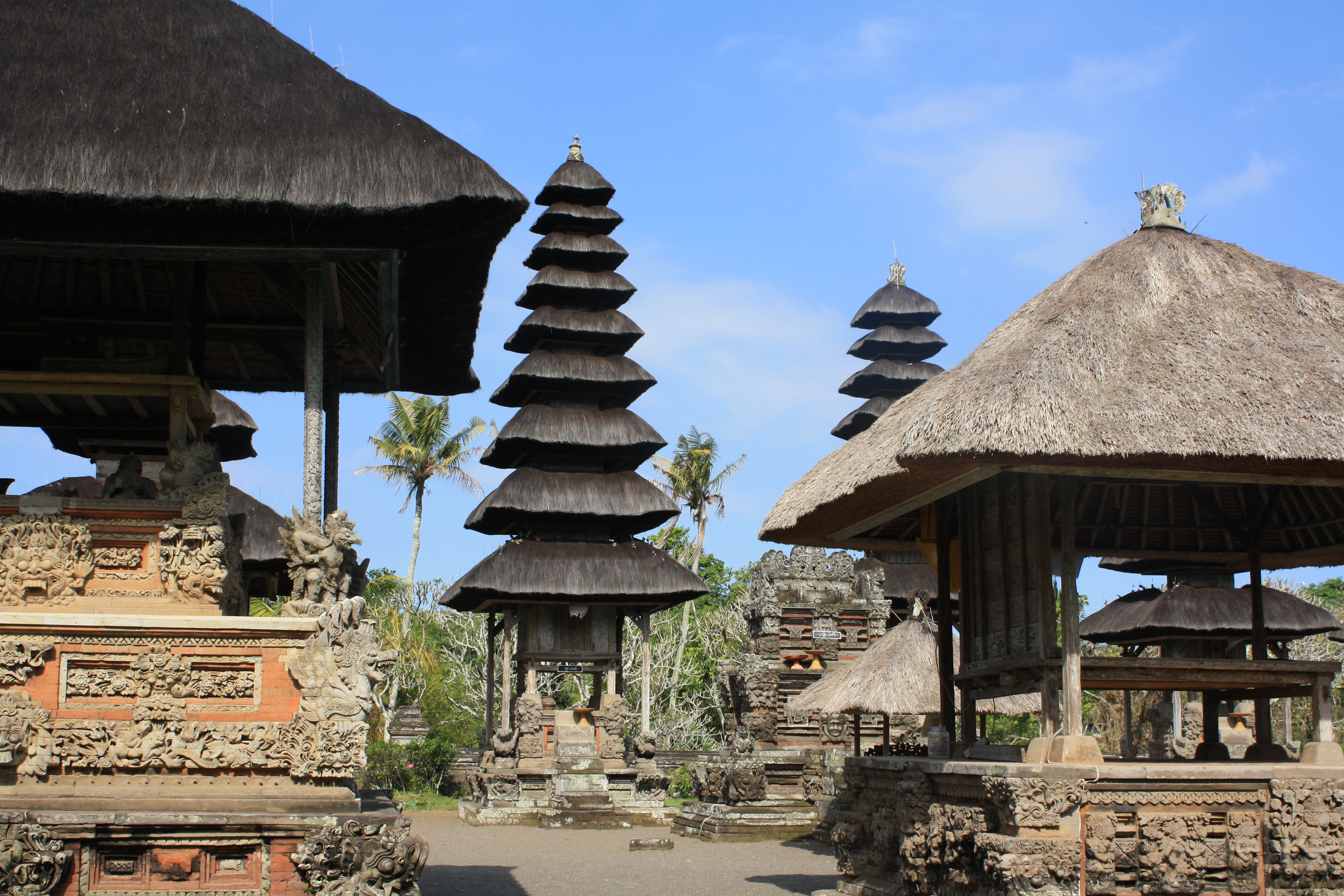 Main sanctum, temple of Taman Ayun